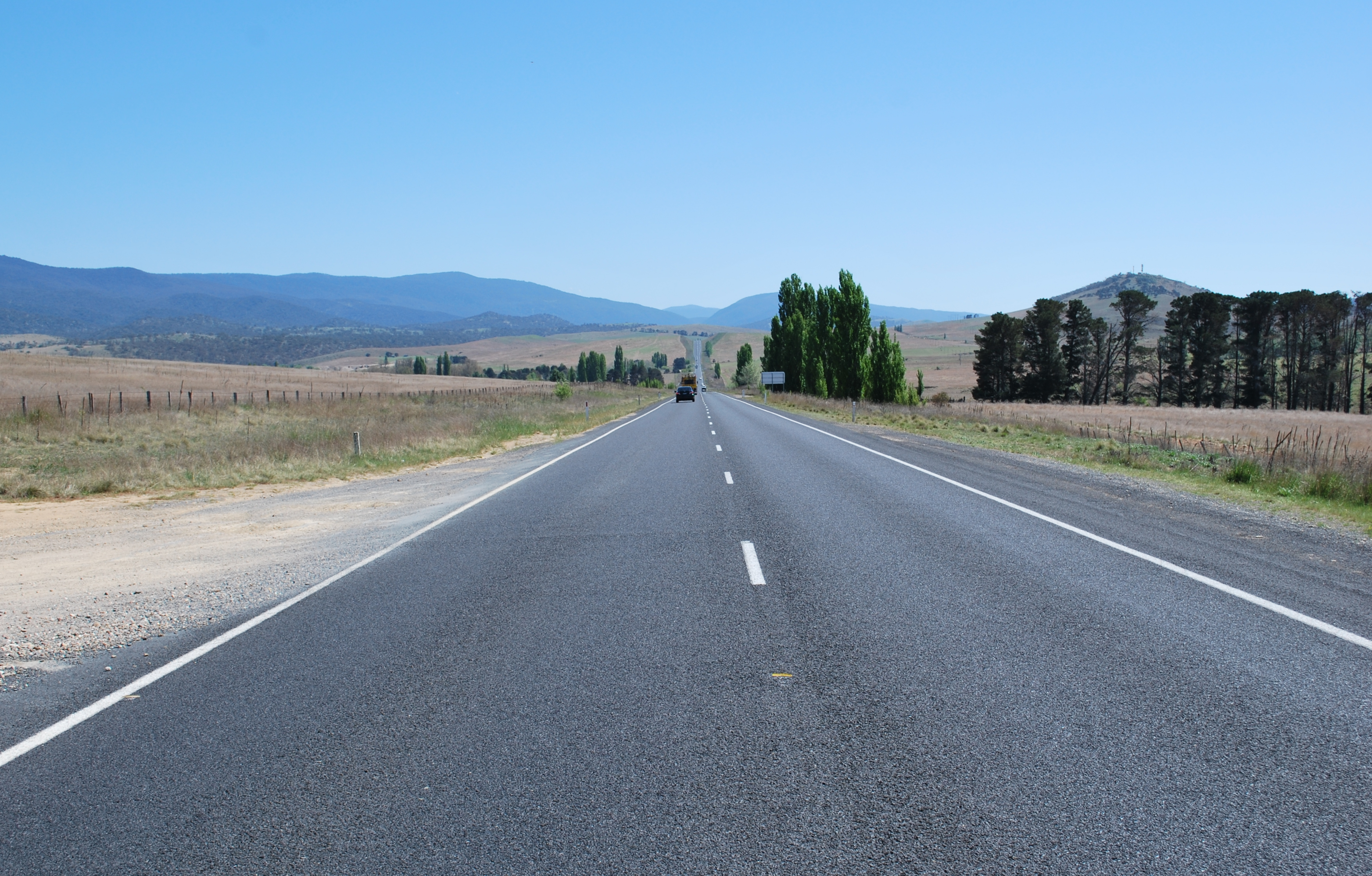 Monaro Highway between Cooma and Canberra